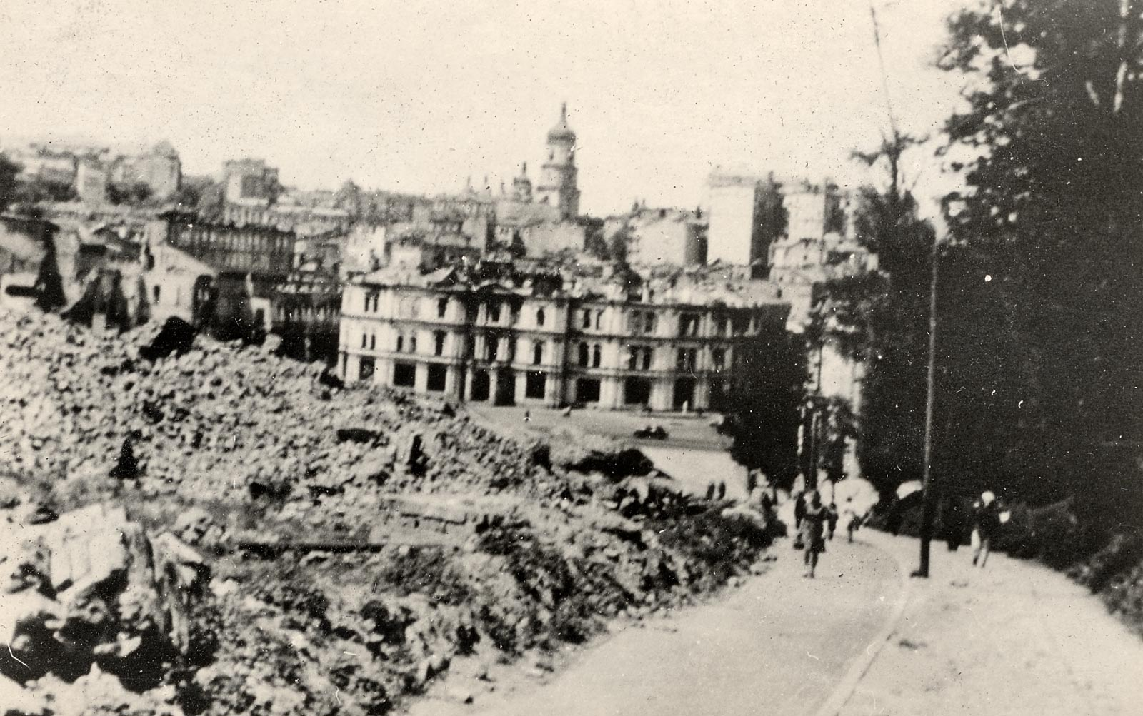 Kyiv City Duma, present Maidan, in the summer of 1941.